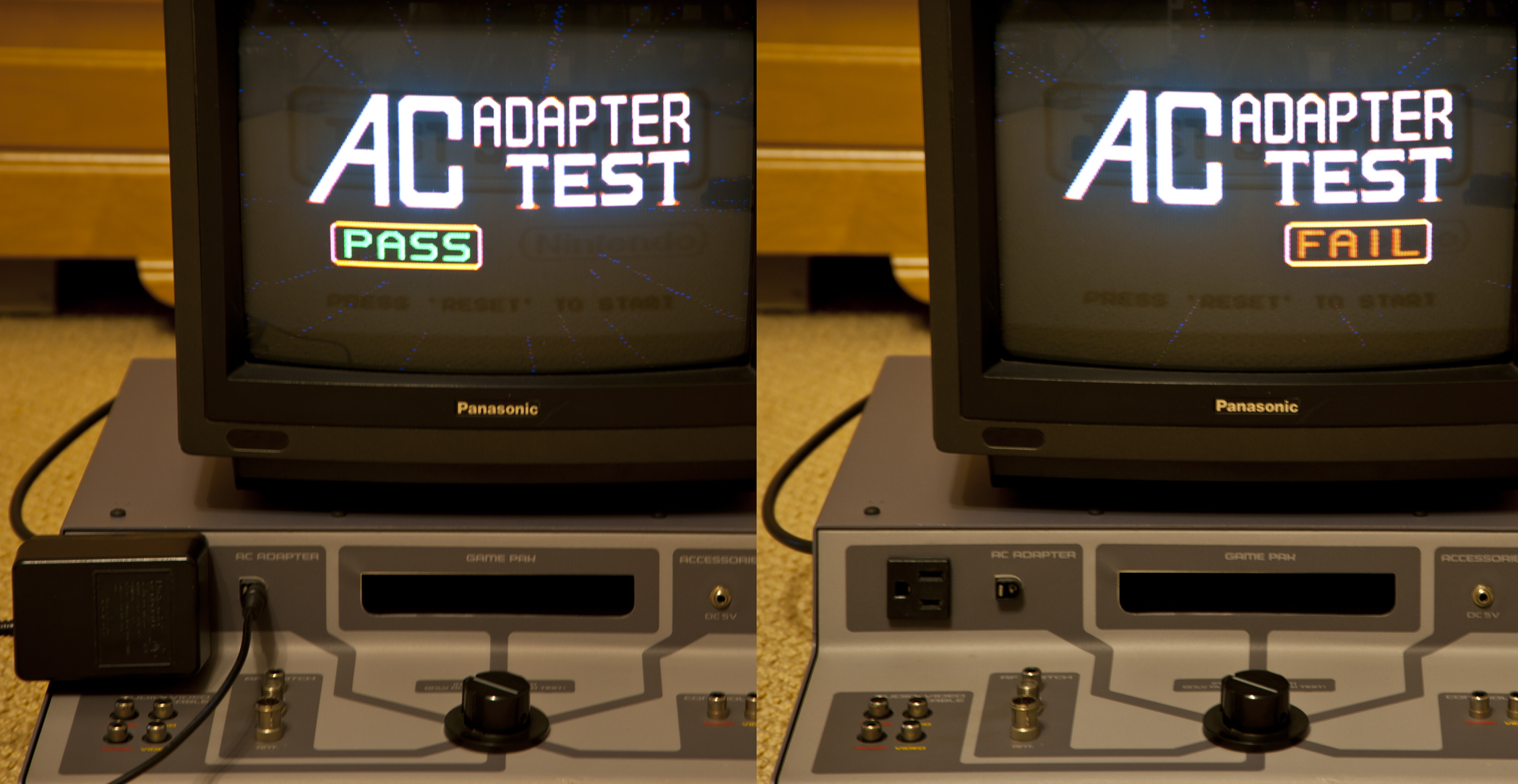 Nes test station AC adapter Pass/Fail test demonstration. If the AC adapter was bad, the screen would always say fail. this is the same with the AV and RF connections as well.